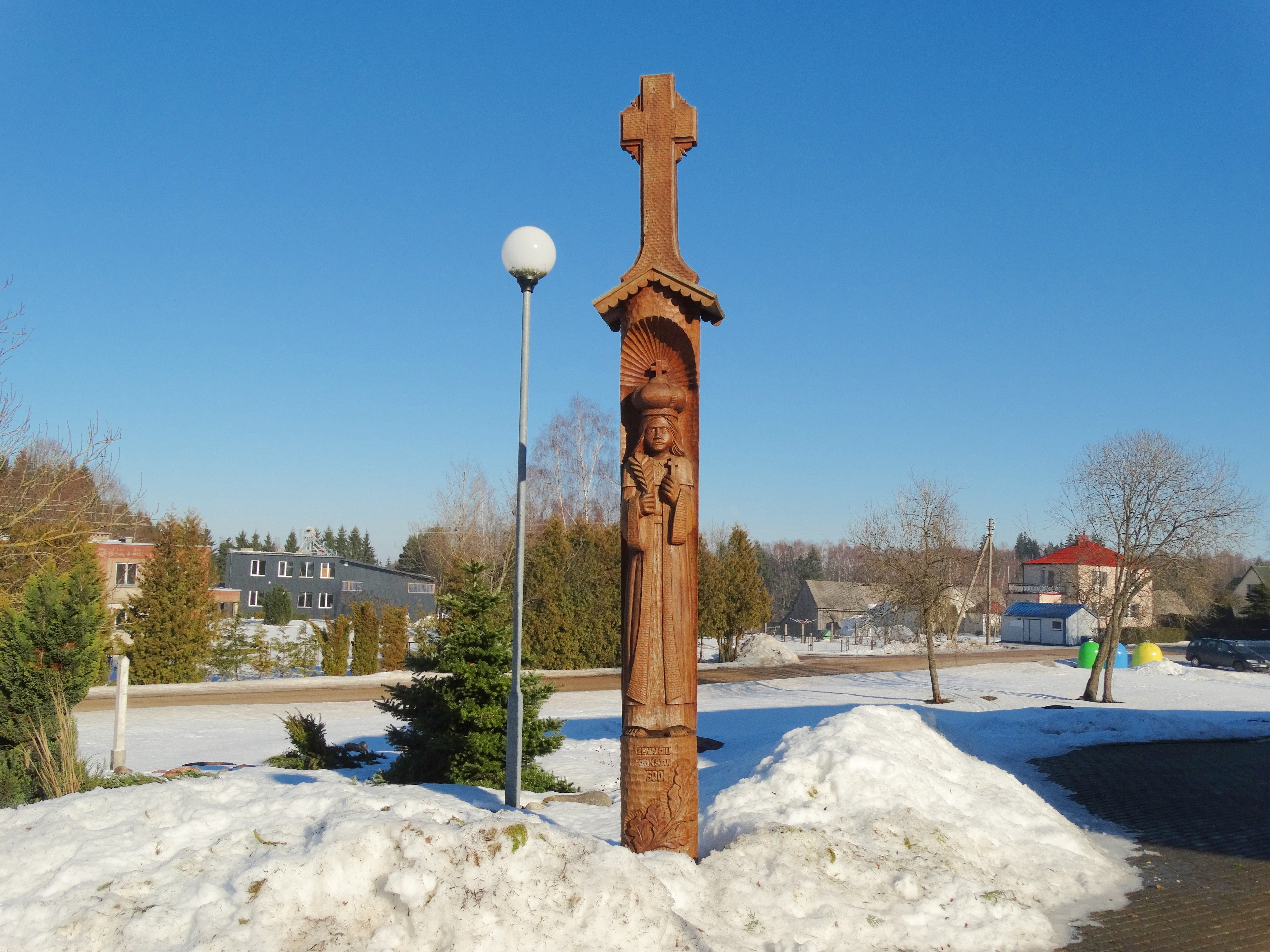 Šiauduva, Šilalė district, Lithuania